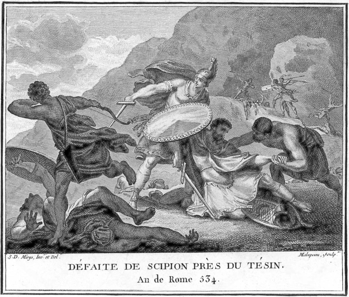 Defeat of Scipio at the Ticino. In 534 after the founding of Rome (218 BC)